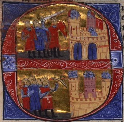 obléhání města 1097